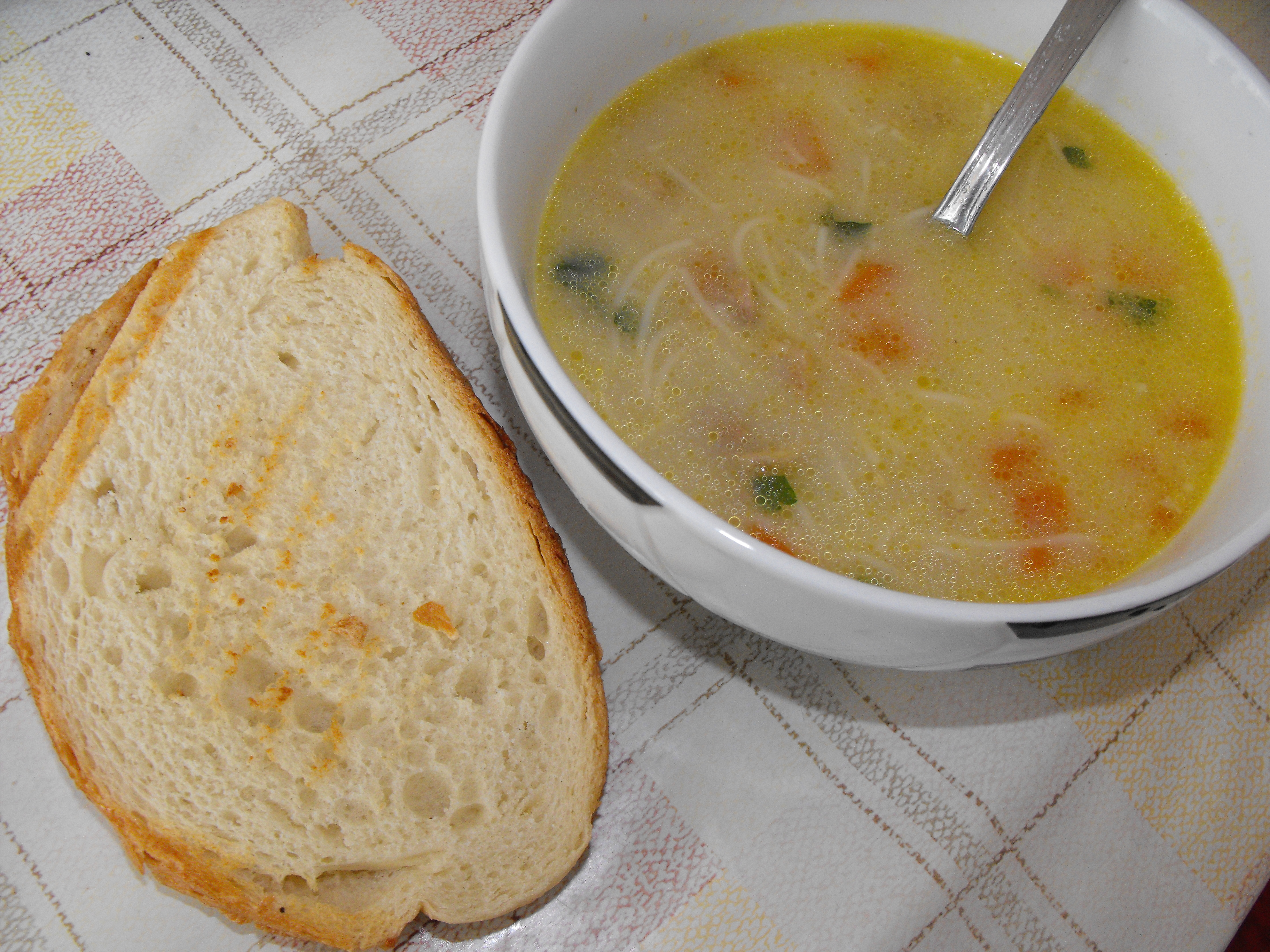 Chicken soup and toast